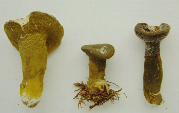 Hypomyces luteovirens occurring on basidiomata of Lactarius laeticolorus.